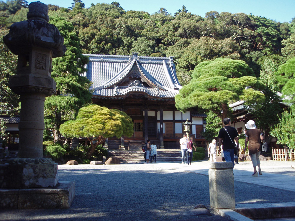 Main hall of Shuzenji Temple in Izu, Shizuoka Prefecture, Japan.